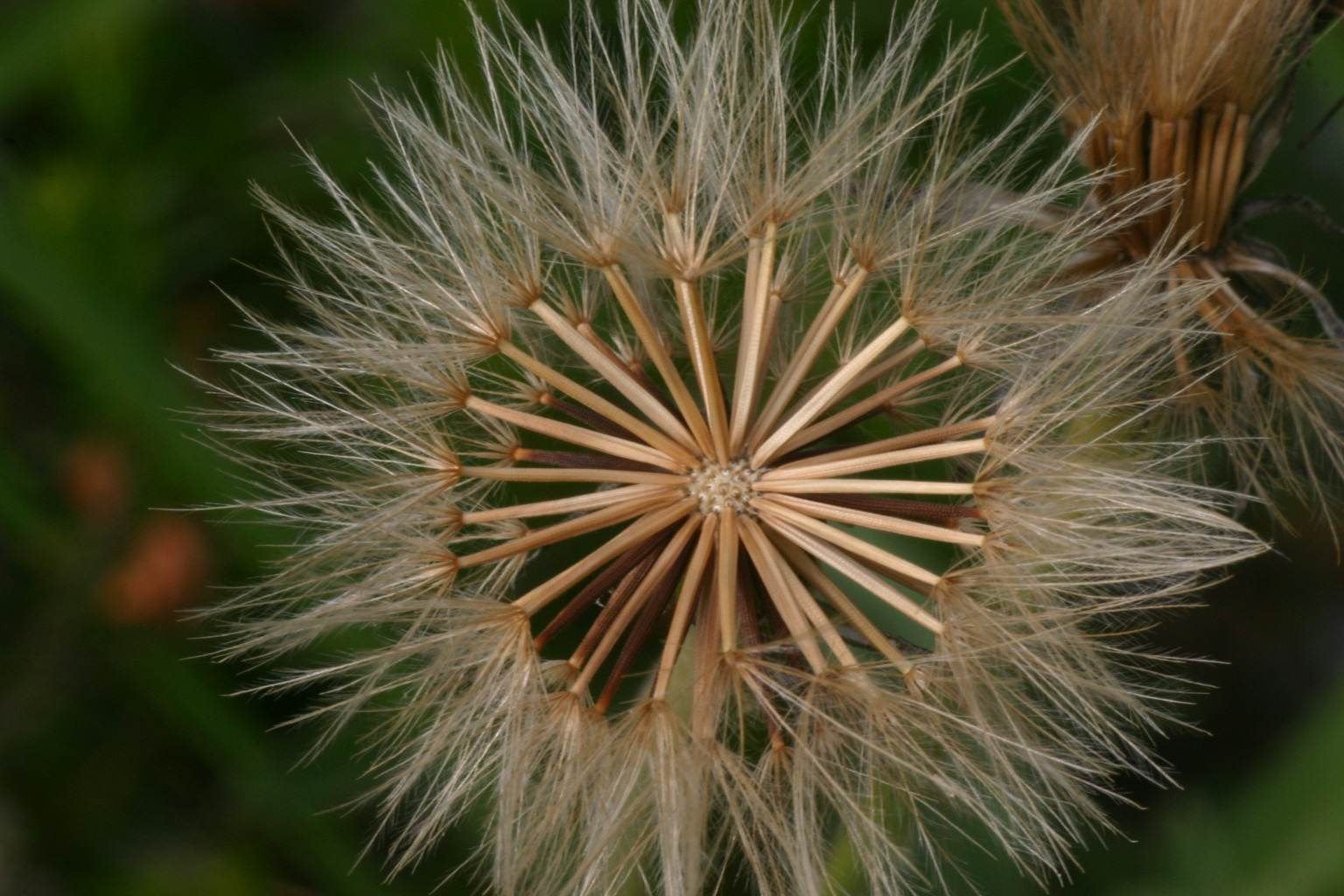 Leontodon incanus